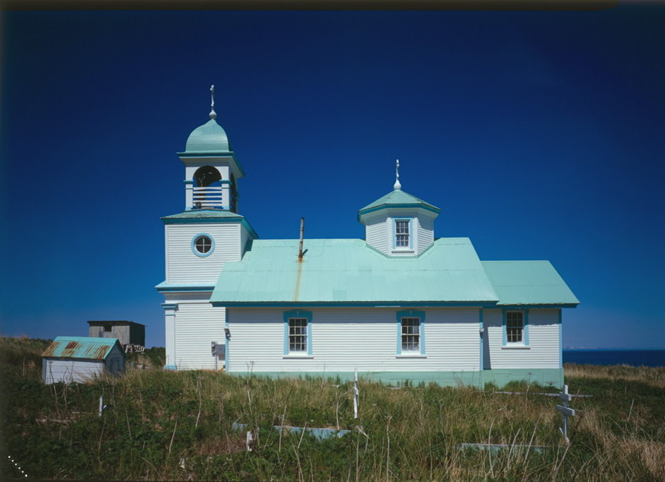 South side view of the Ascension of Our Lord Russian Orthodox Church, Karluk, Alaska